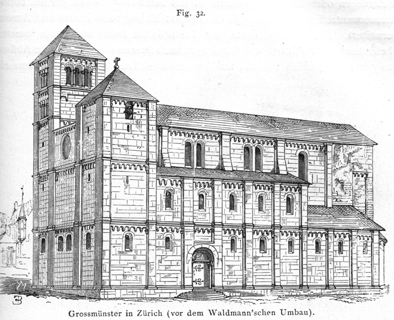 Reconstruction by Johann Rudolf Rahn of the Grossmünster in Zurich, Switzerland, middle of 15th century.